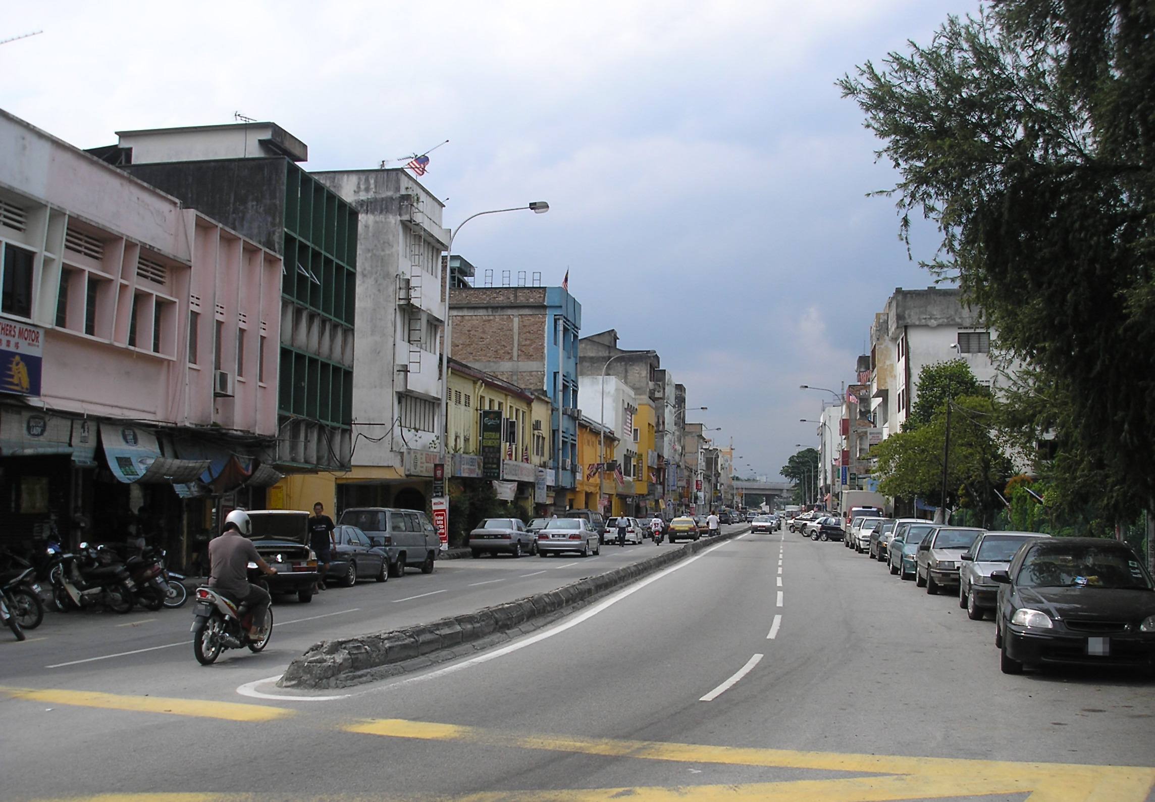 The main street (Jalan Sungai Besi; Sungai Besi Road) of old Salak South town, Kuala Lumpur, Malaysia, as seen towards the north.